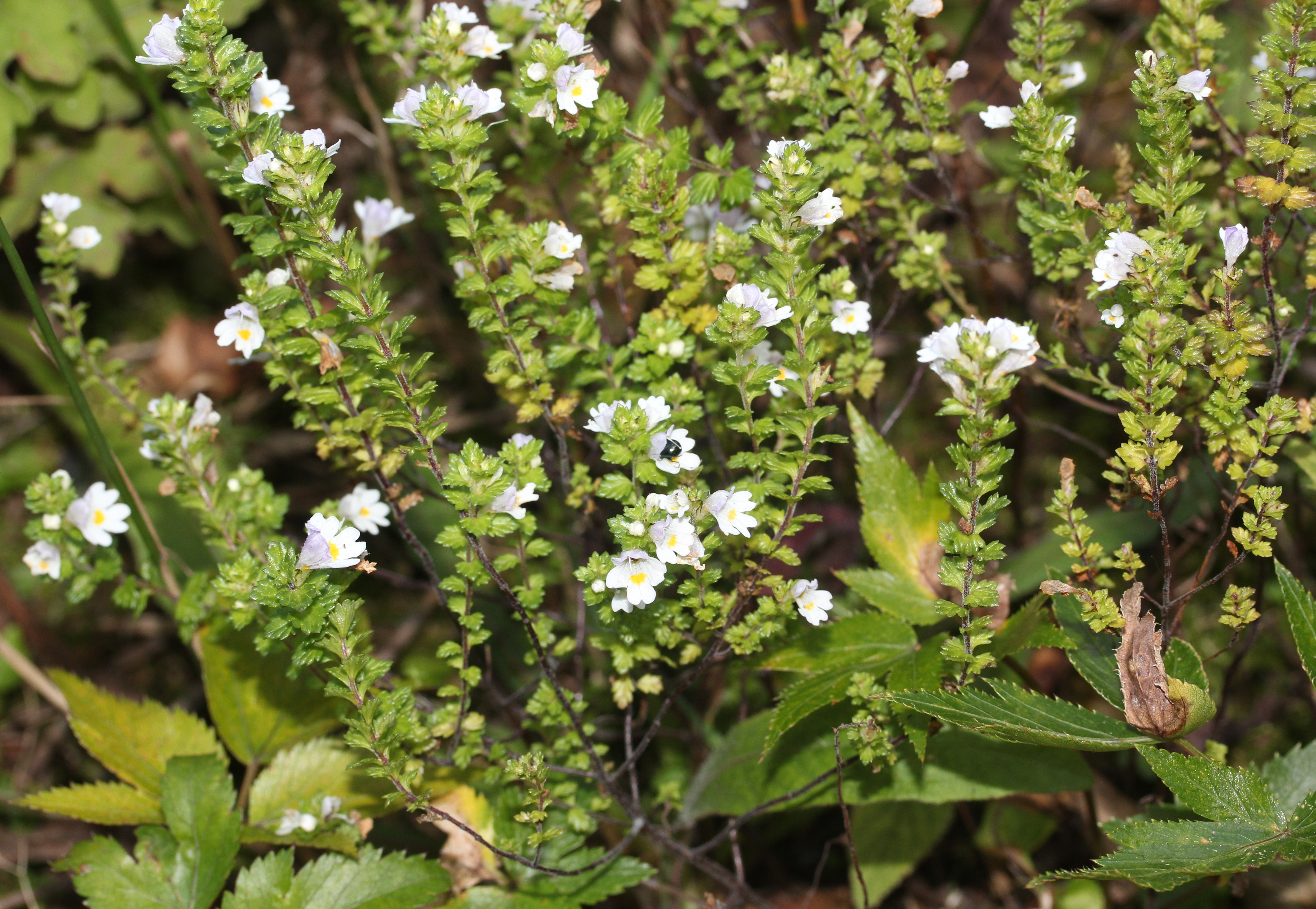 Euphrasia insignis Wettst. subsp. iinumae (Takeda) T.Yamaz., in Mount Ibuki, Gifu pref., Japan.